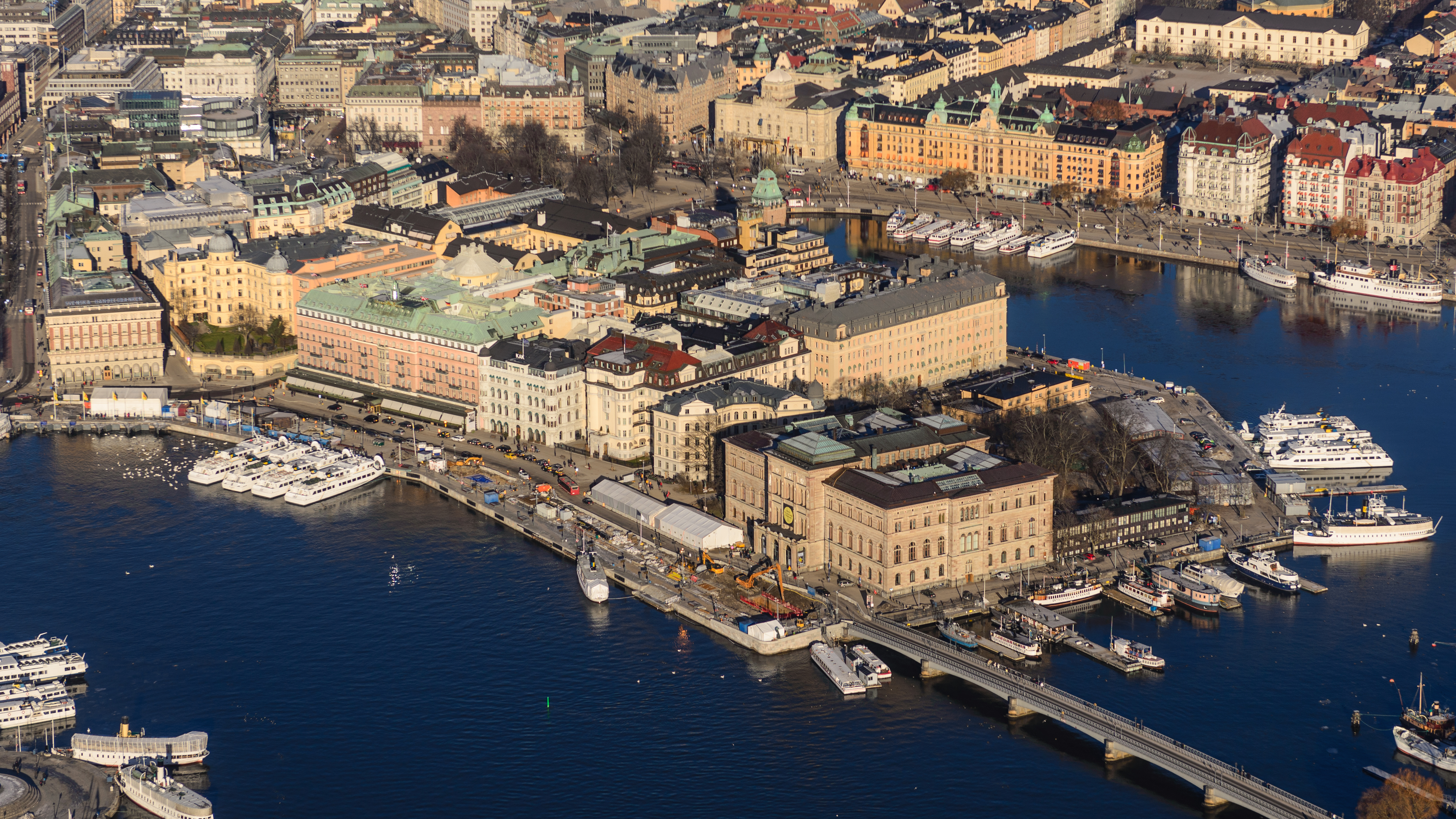 Blasieholmen.